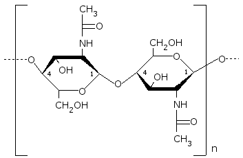 This is a modified version of Marcel Wiesweg's "Chitin.png."